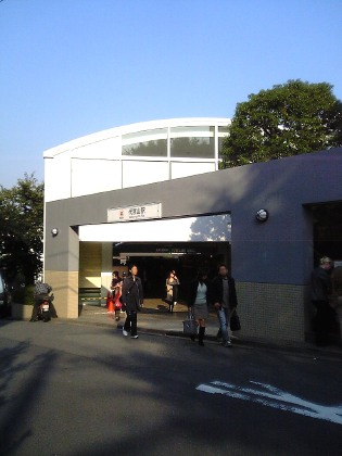 In front of the entrance to Daikan-yama Station